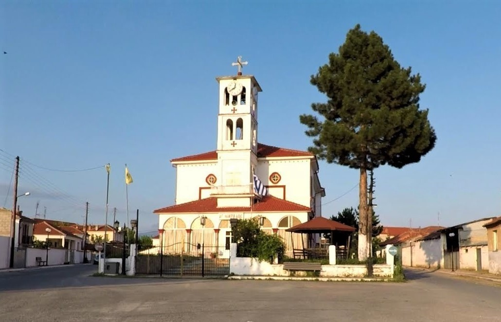 Church in Papayiannis, Florina